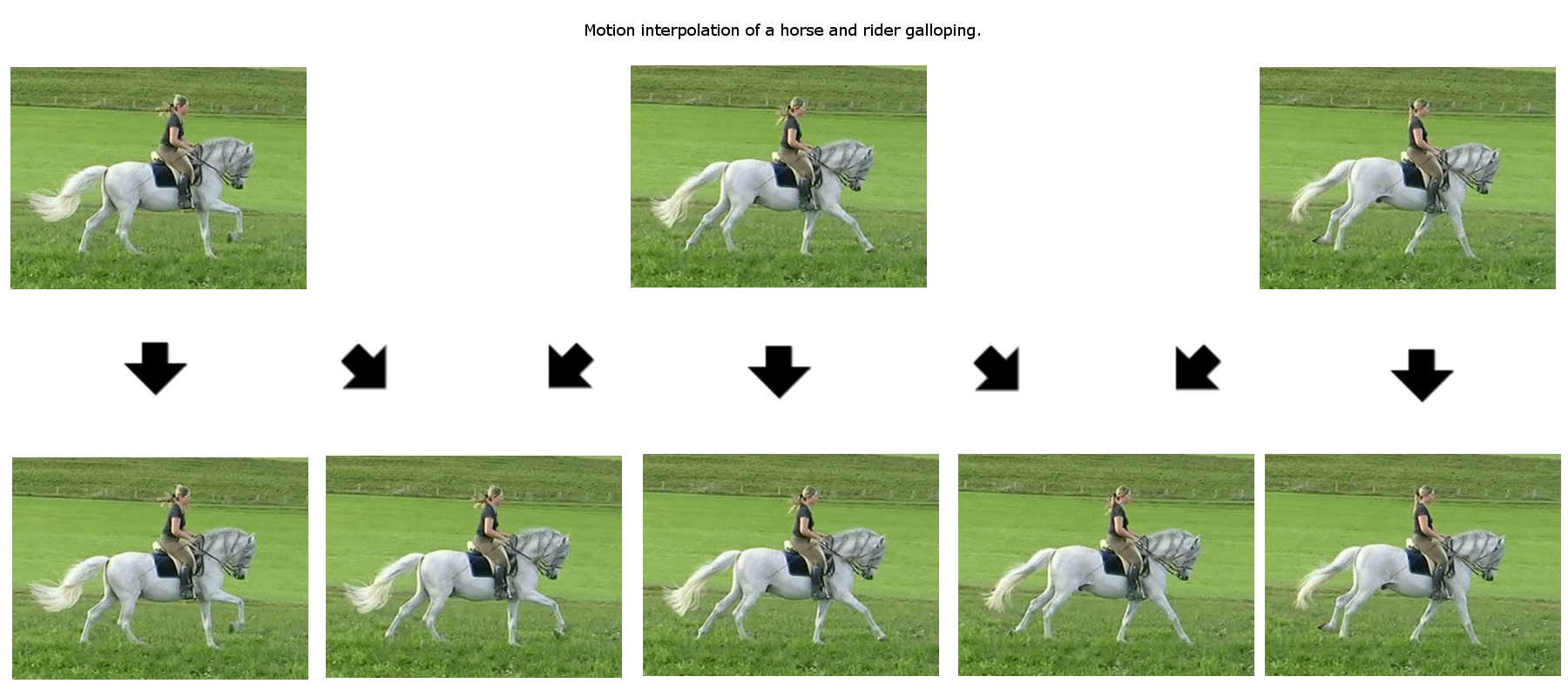 Example of Motion interpolation for the Wikipedia article on it. The frames aren't really interpolated. Every other frame was removed from the top row of an animaged gif, and then replaced in the bottom row as if they had been interpolated. Similar to an example of Sony's MotionFlow found here Lately added an example of truly interpolated sequence made from the source by slowing it down 8 times. To obtain such a result the source sequence was interpolated 3 times by 3 different algorithms and the submited one was chosen by human supervision. IMHO it shows the best quality reachable by the software money can buy.